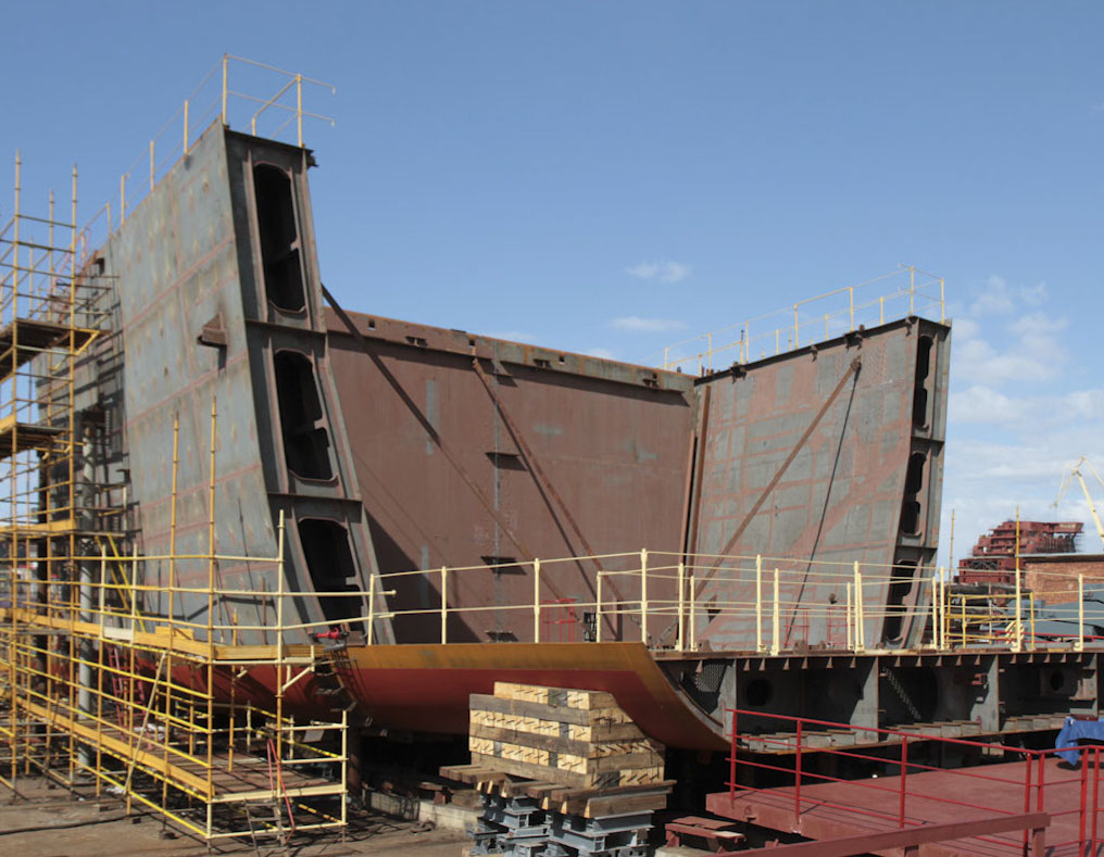 Ivan Papanin under construction at the Admiralty Shipyard.